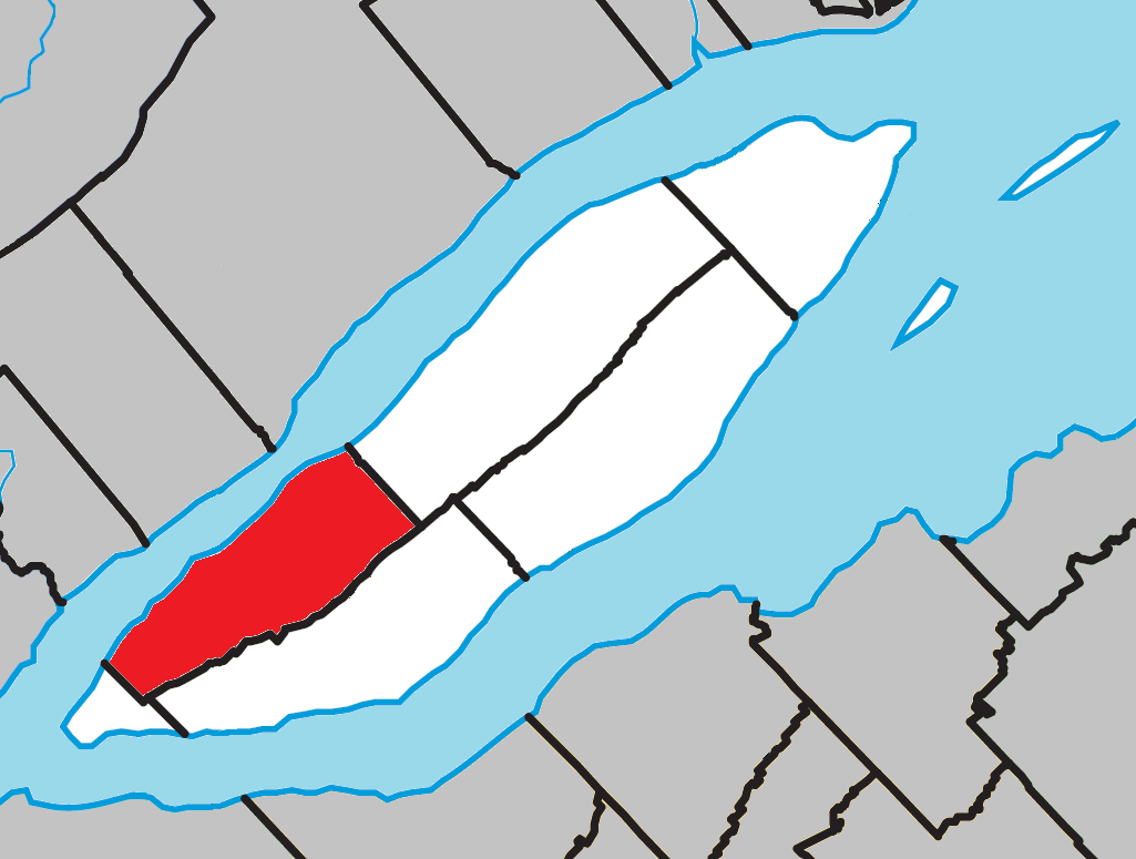 Location of Saint-Pierre-de-l'Île-d'Orléans, Quebec within L'Île-d'Orléans Regional County Municipality.